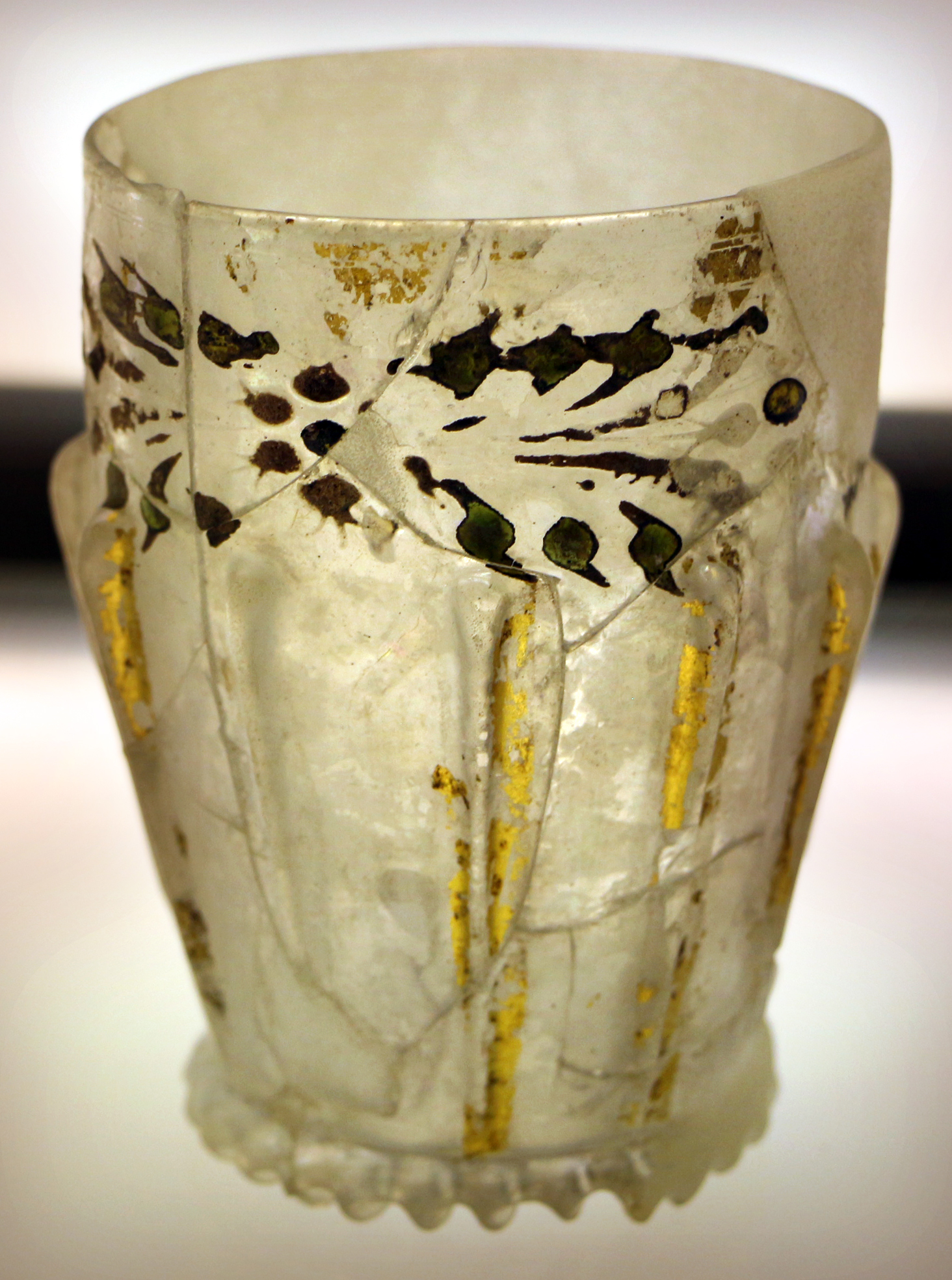 Restituzioni 2016